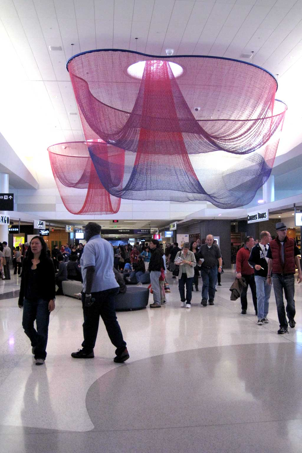 Terminal 2 post-security at San Francisco International Airport during the community open house on April 9, 2011.